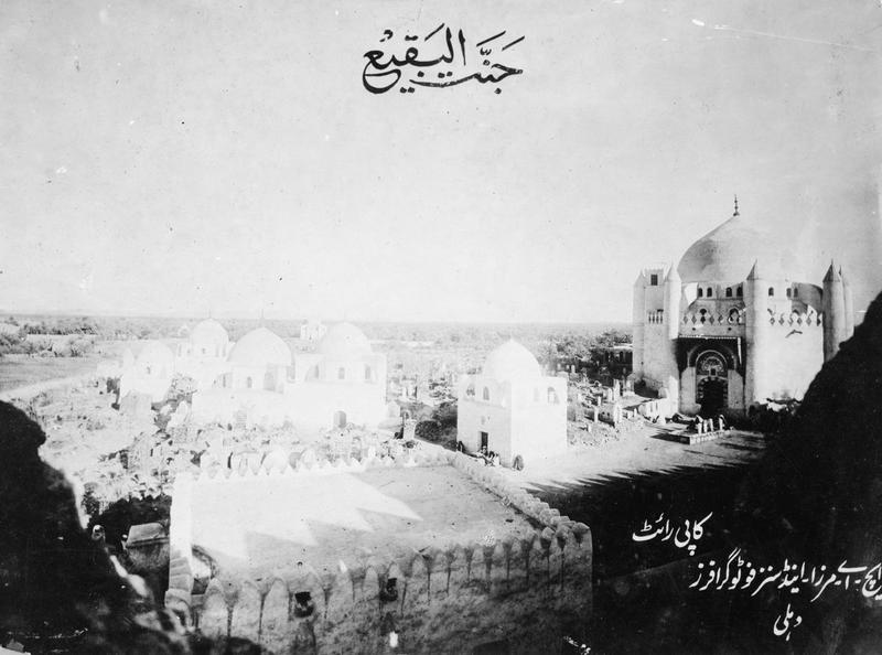 T E Lawrence and the Arab Revolt 1916 - 1918 Mecca - Janet-el-Bakia (the great cemetery south west of the town).